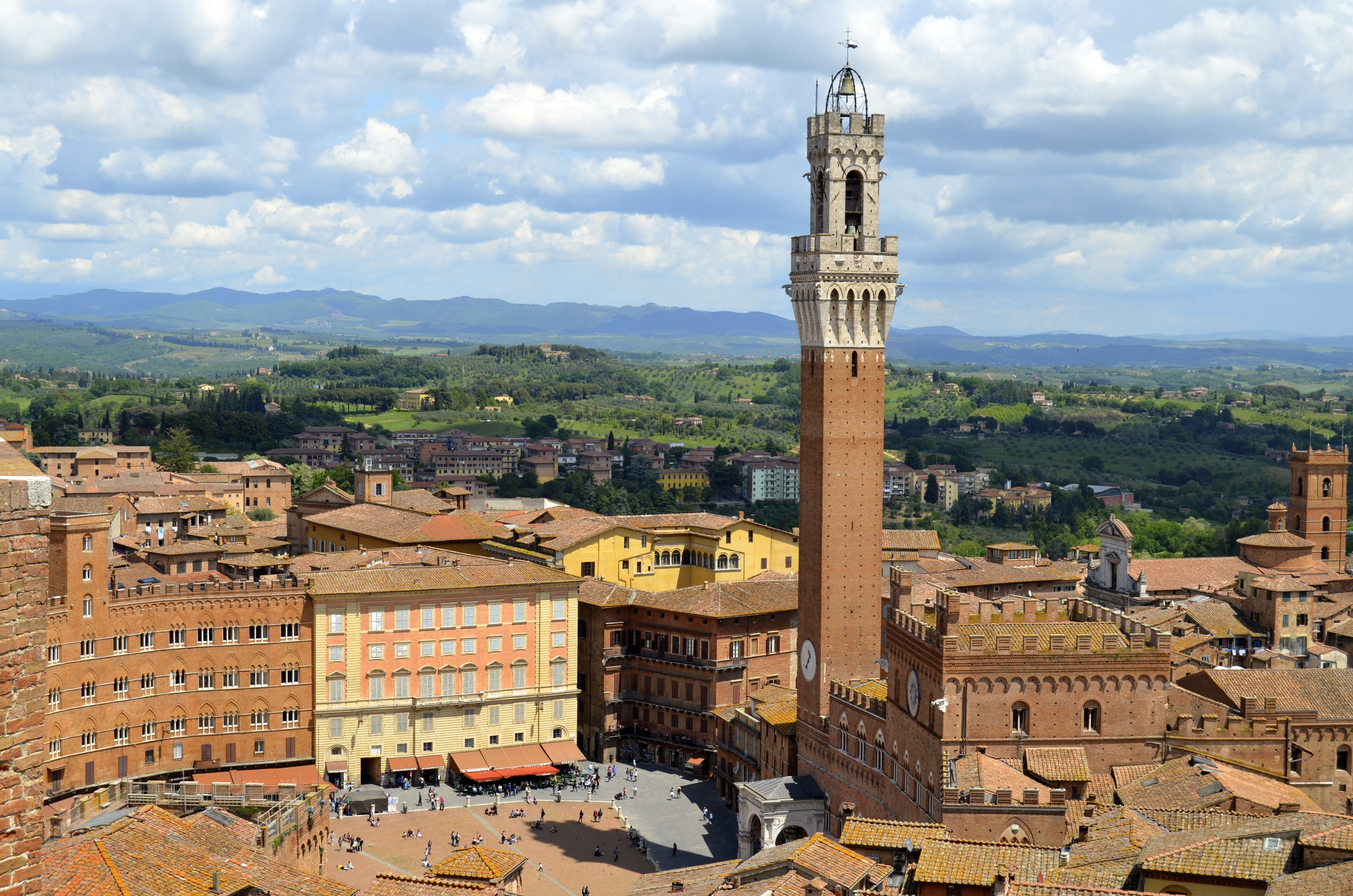 Siena, Tuscany, Italy. The Torre del Mangia is shown.